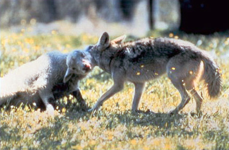 Coyote (Canis latrans) with typical throat hold on domestic lamb